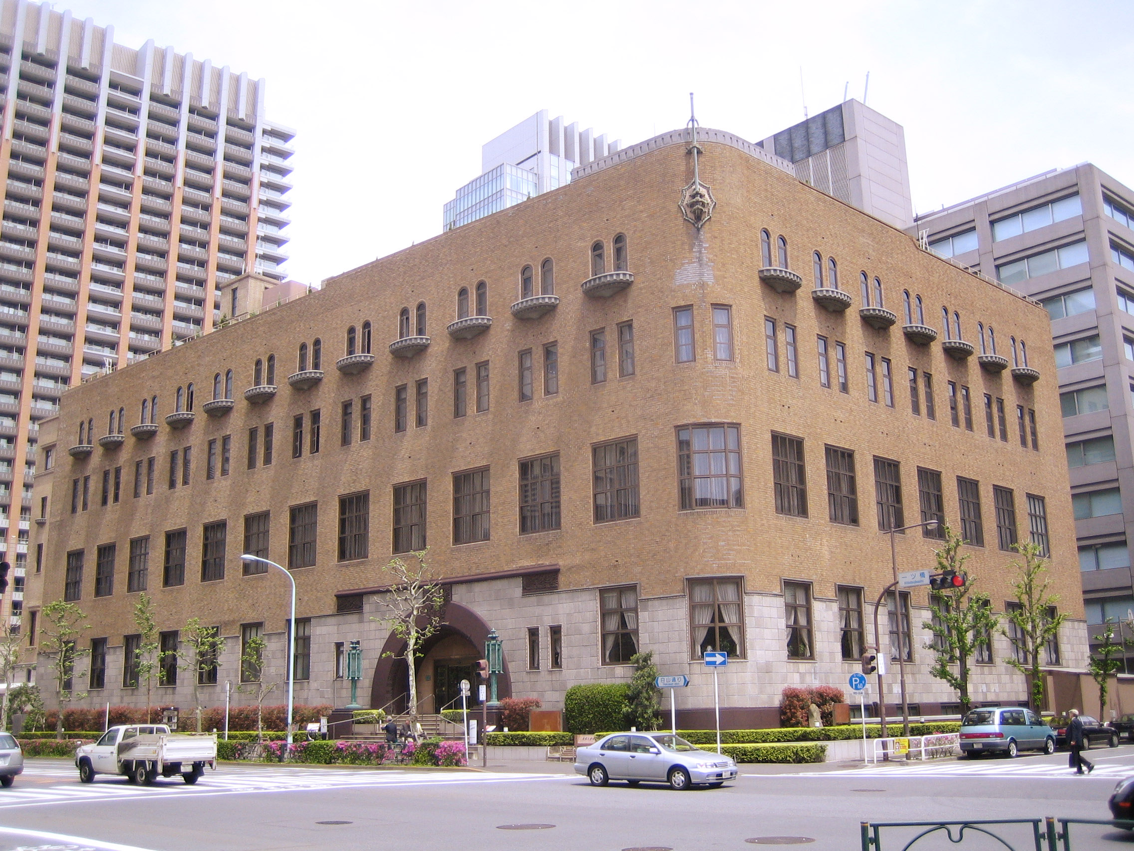 Gakushikaikan (学士会館), Chiyoda, Tokyo, Japan